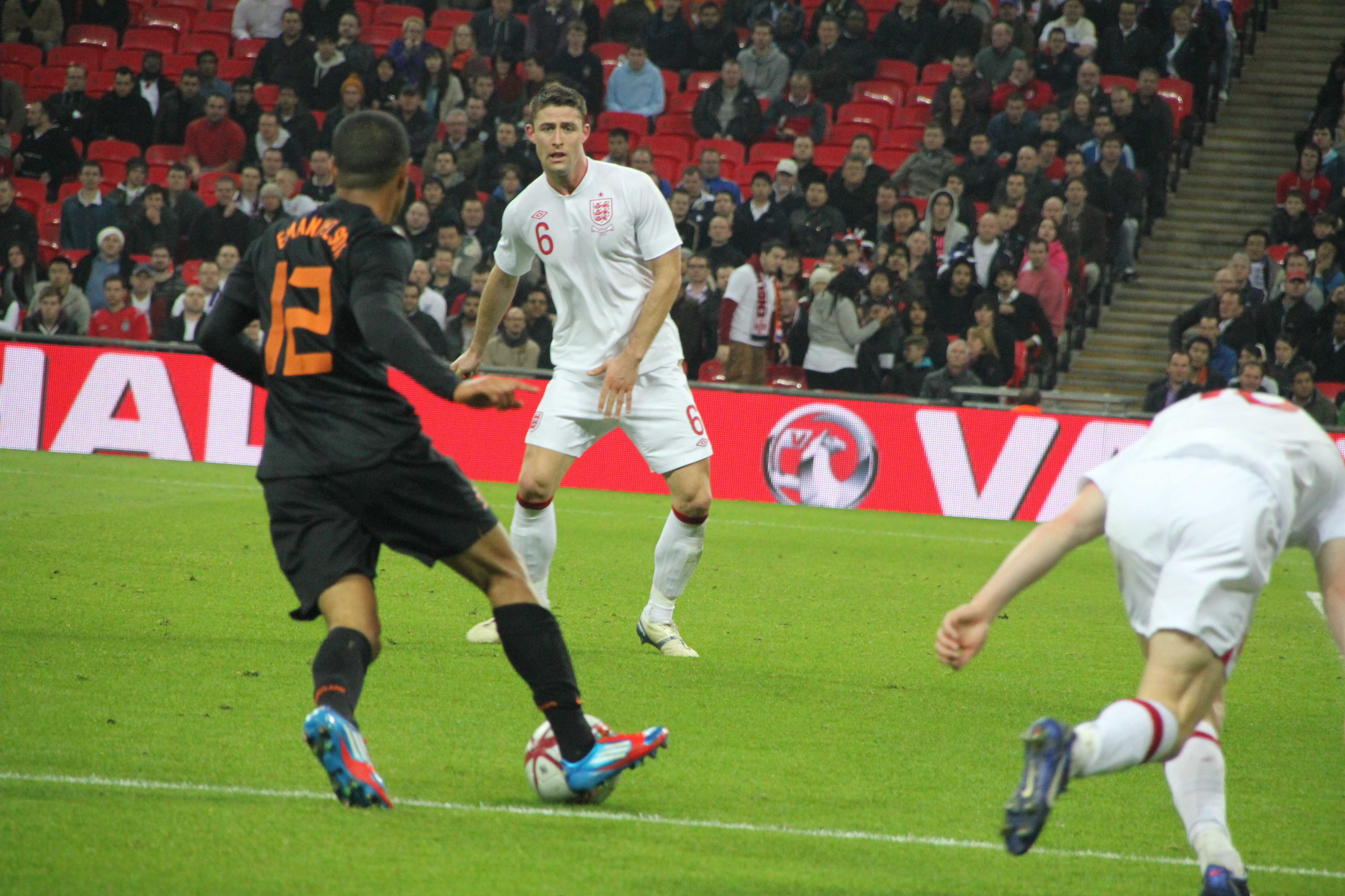 England's Gary Cahill in the England v. Holland match, February 29, 2012